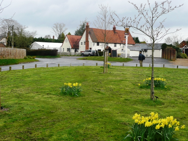 The Green, Upper Basildon The bus has dropped us off here to start our walk. It's a bit too early to visit the Beehive pub on the far side of the green; besides it is in the next square north.